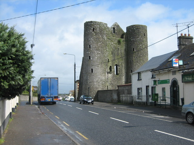 Delvin Castle. Probably built in the 15th century by one of the Nugent family.